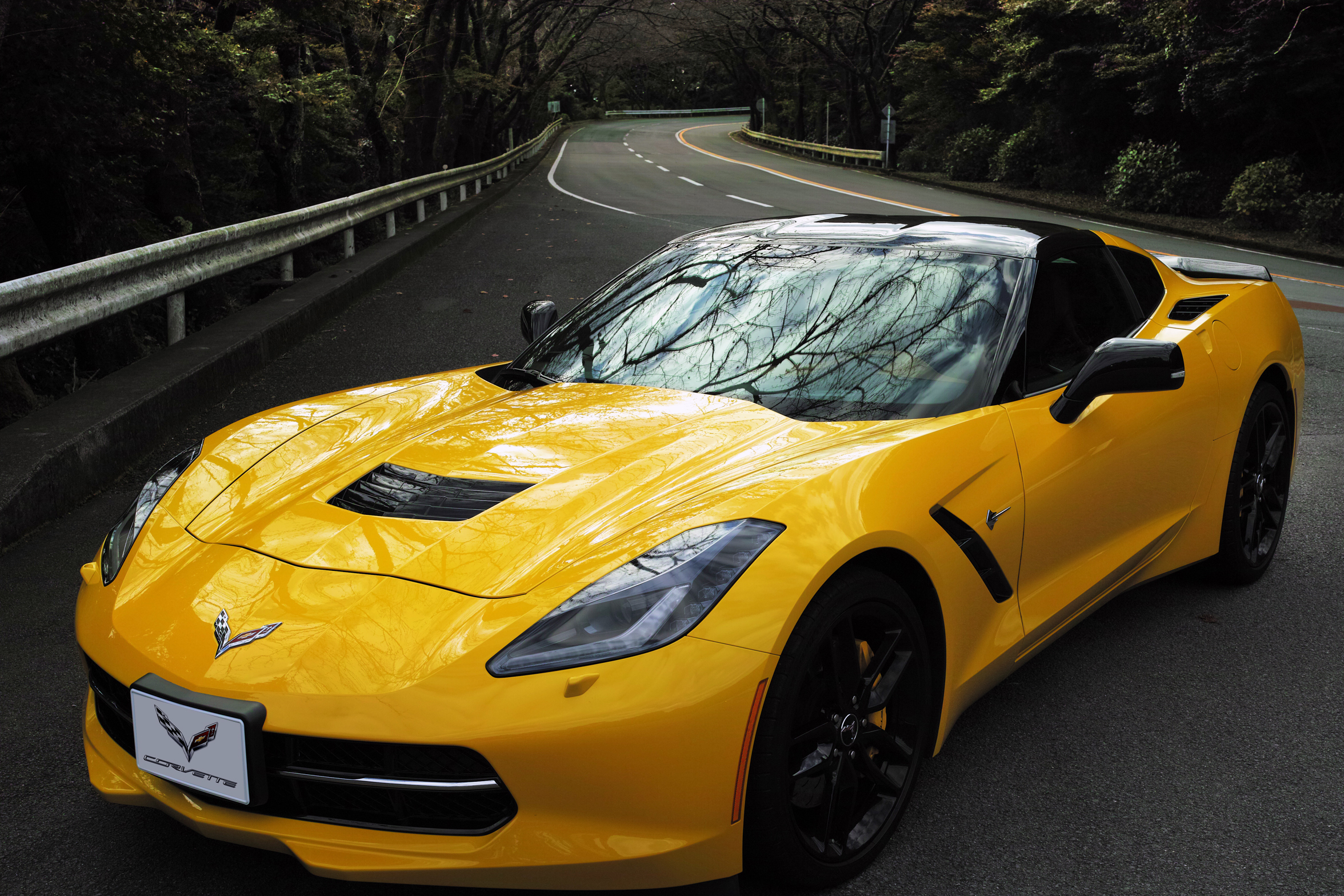 C7 Corvette Stingray Z51 2014 Front view